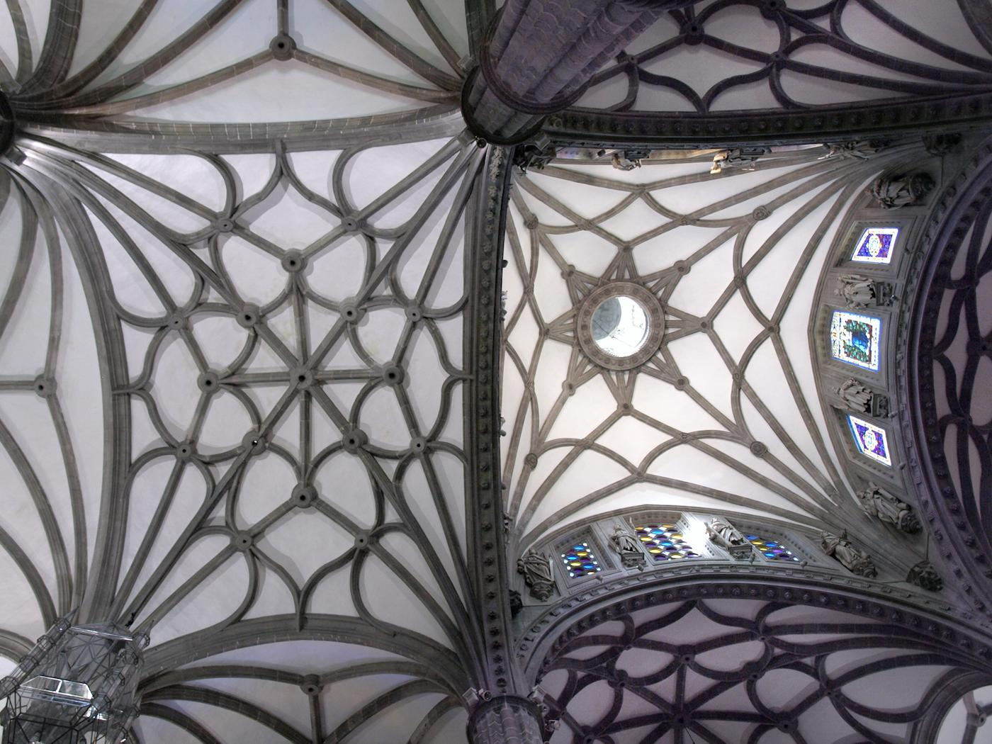 Las Palmas de Gran Canaria , Church Santa Ana, vault, photo 2009